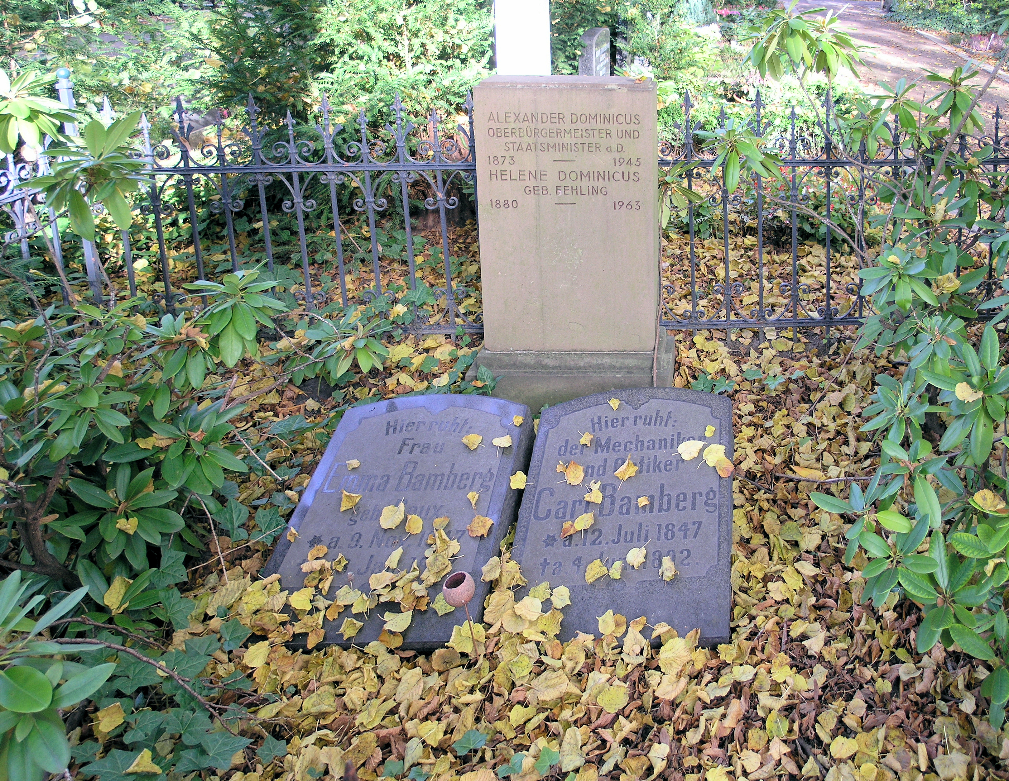 Graves of honor, Carl Bamberg, Stubenrauchstraße 43-45, Berlin-Friedenau, Germany Koordinate:52°28′33″N 13°19′22″E / 52.47583°N 13.32278°E